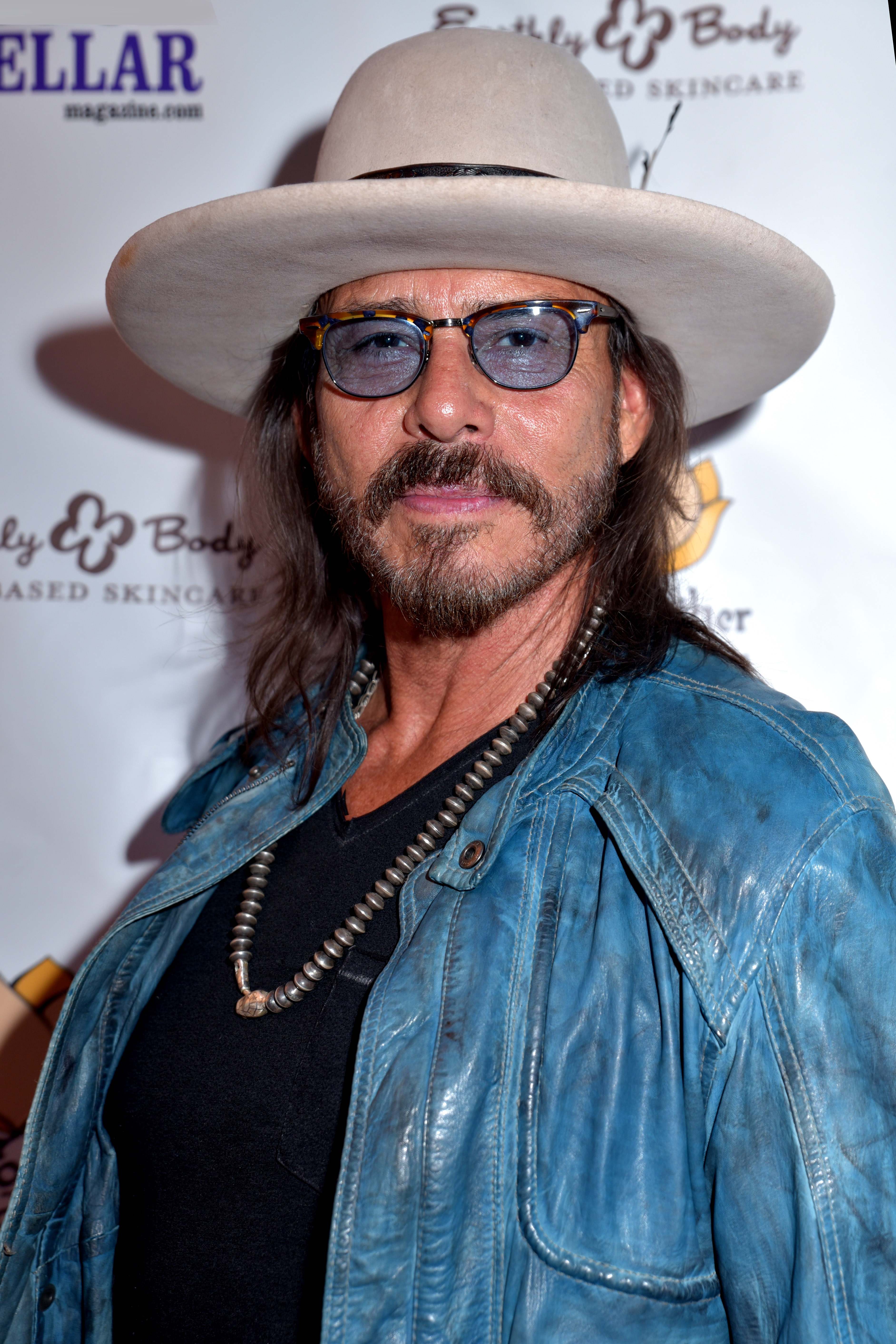 Raoul Max Trujillo arrives for the California Saga 2 Charity Concert in Los Angeles California on July 3, 2019 - Photo by Glenn Francis of